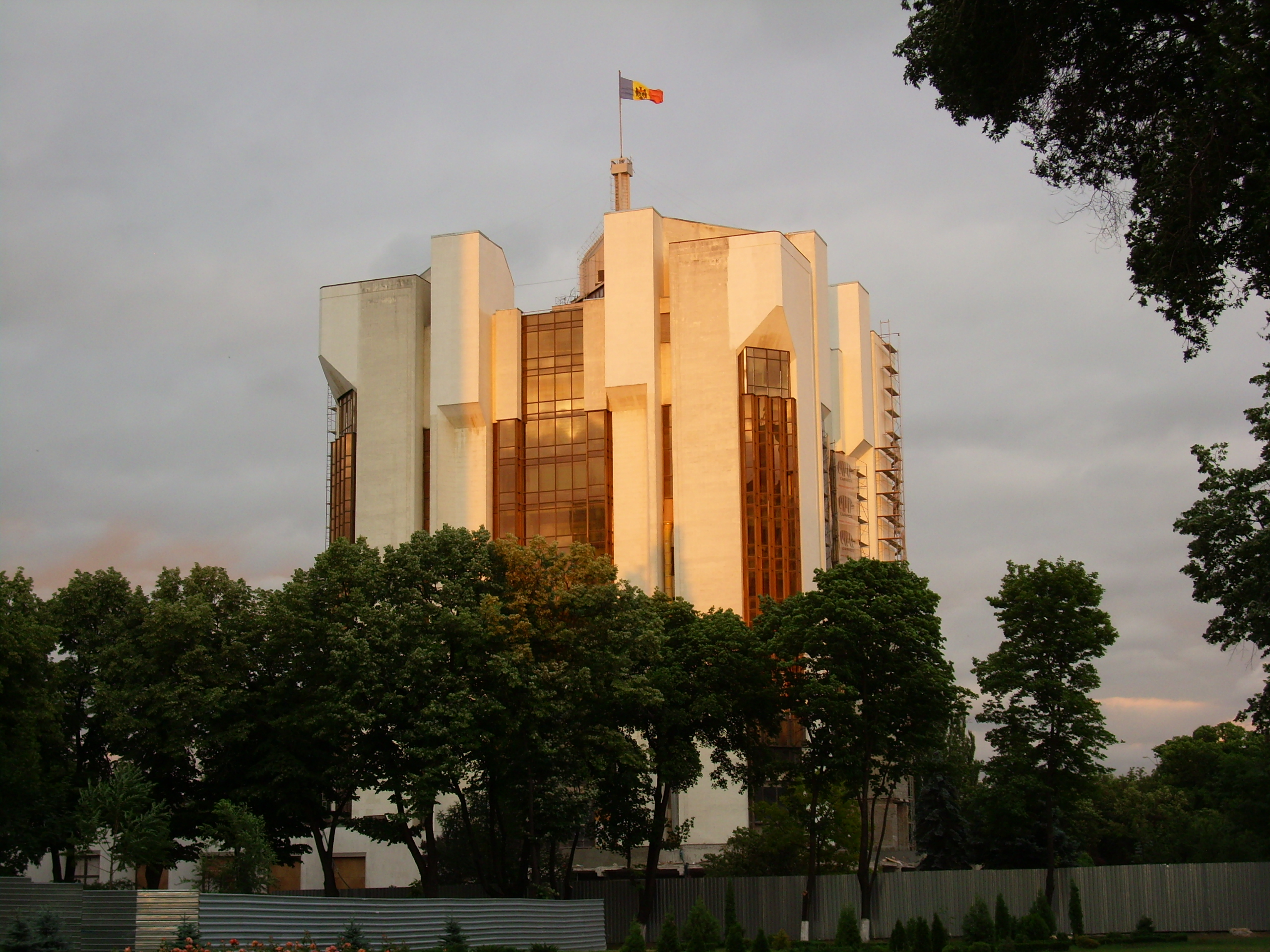 Chisinau / Kishinev, Moldova: the presidential palace and the Ministry of Agriculture - architect U. B. Tumanyan - Bulevardul Stefan cel Mare - Presedentia